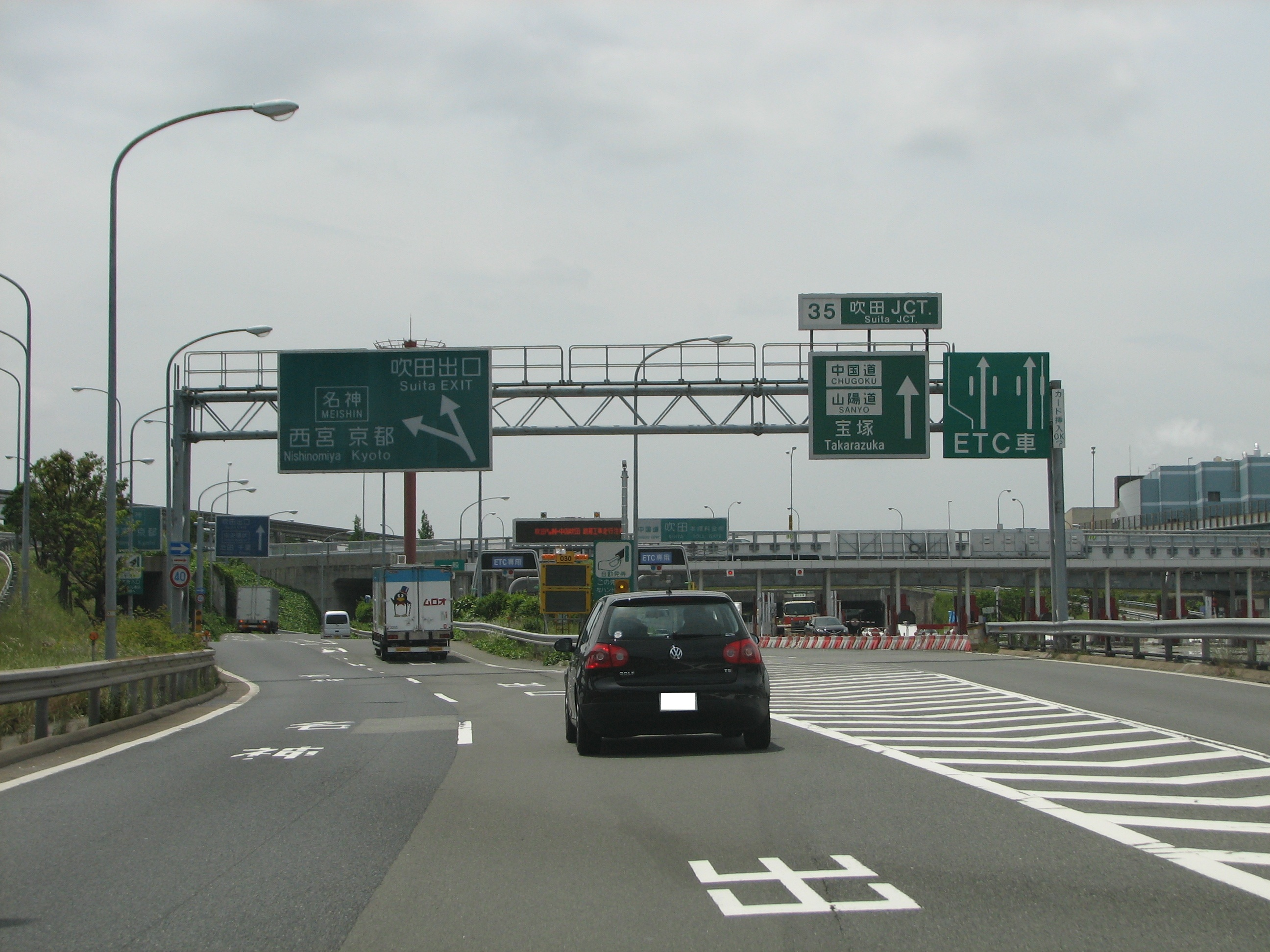 Suita JCT (from Kinki Expressway)